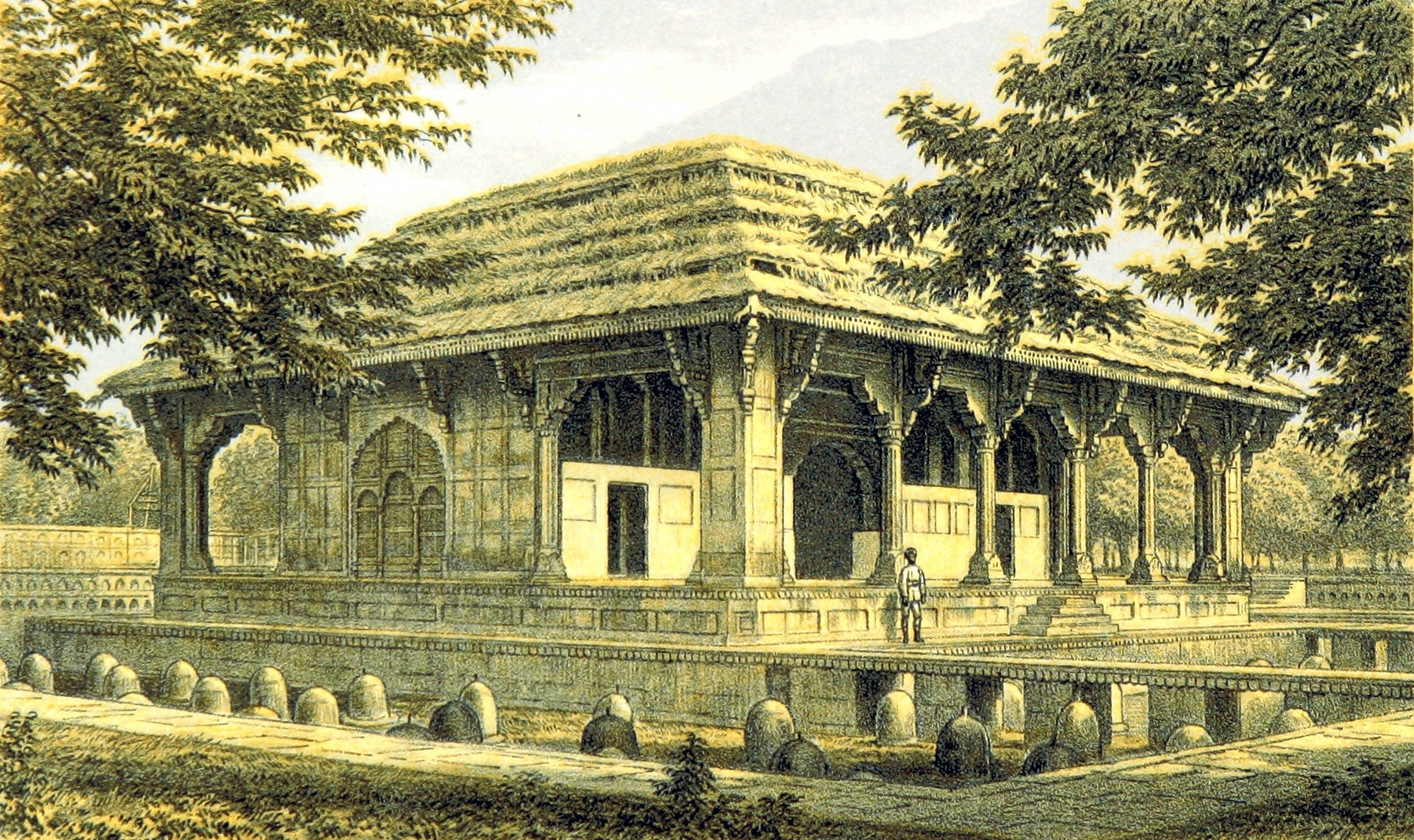 Image taken from: Title: "The Happy Valley: sketches of Kashmir and the Kashmiris ... With maps and illustrations" Author: WAKEFIELD, William - Traveller in India Shelfmark: "British Library HMNTS 10058.f.17.", "British Library OC T 37290" Page: 192 Place of Publishing: London Date of Publishing: 1879 Issuance: monographic Identifier: 003831144 Note: The colours, contrast and appearance of these illustrations are unlikely to be true to life. They are derived from scanned images that have been enhanced for machine interpretation and have been altered from their originals. If you wish to purchase a high quality copy of the page that this image is drawn from, please order it here. Please note that you will need to enter details from the above list - such as the shelfmark, the page, the book's volume and so on - when filling out your order. Explore: Find this item in the British Library catalogue, 'Explore'. Open the page in the British Library's itemViewer (page: 192) Download the PDF for this book Click here to see all the illustrations in this book and click here to browse other illustrations published in books in the same year. Please click on the tags shown on the right-hand side for other ways to browse the illustrations.